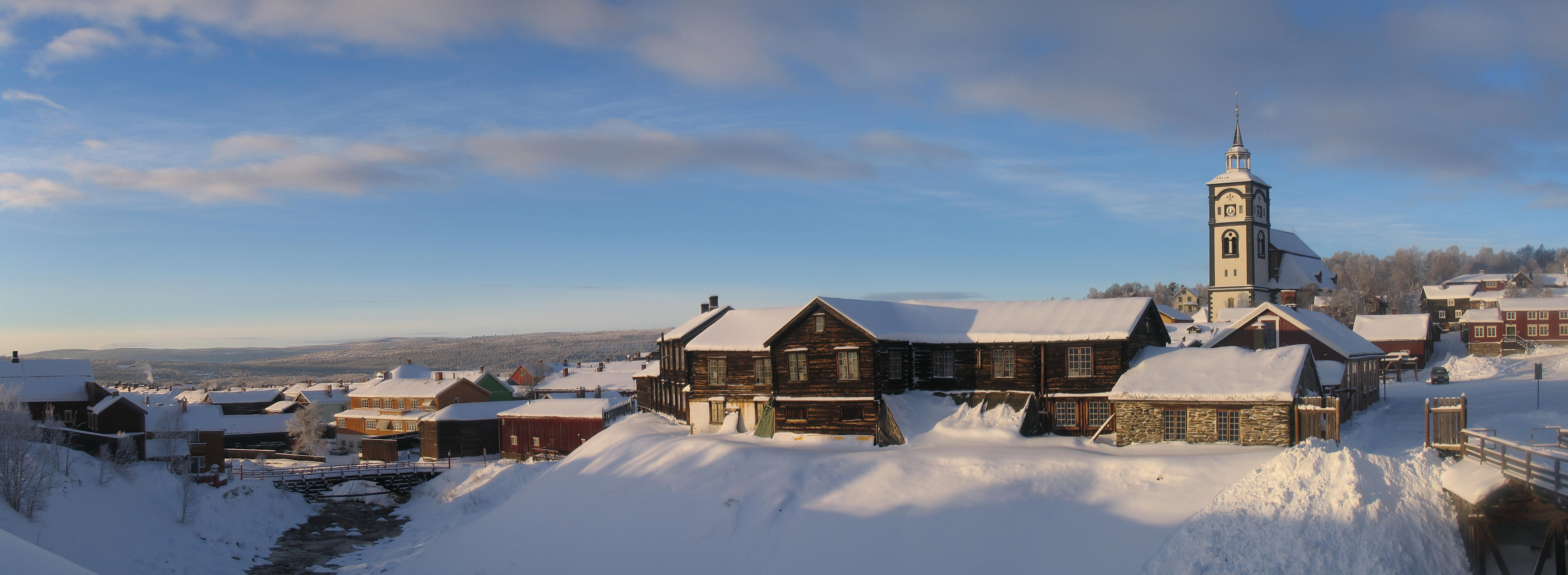 Røros in wintersun